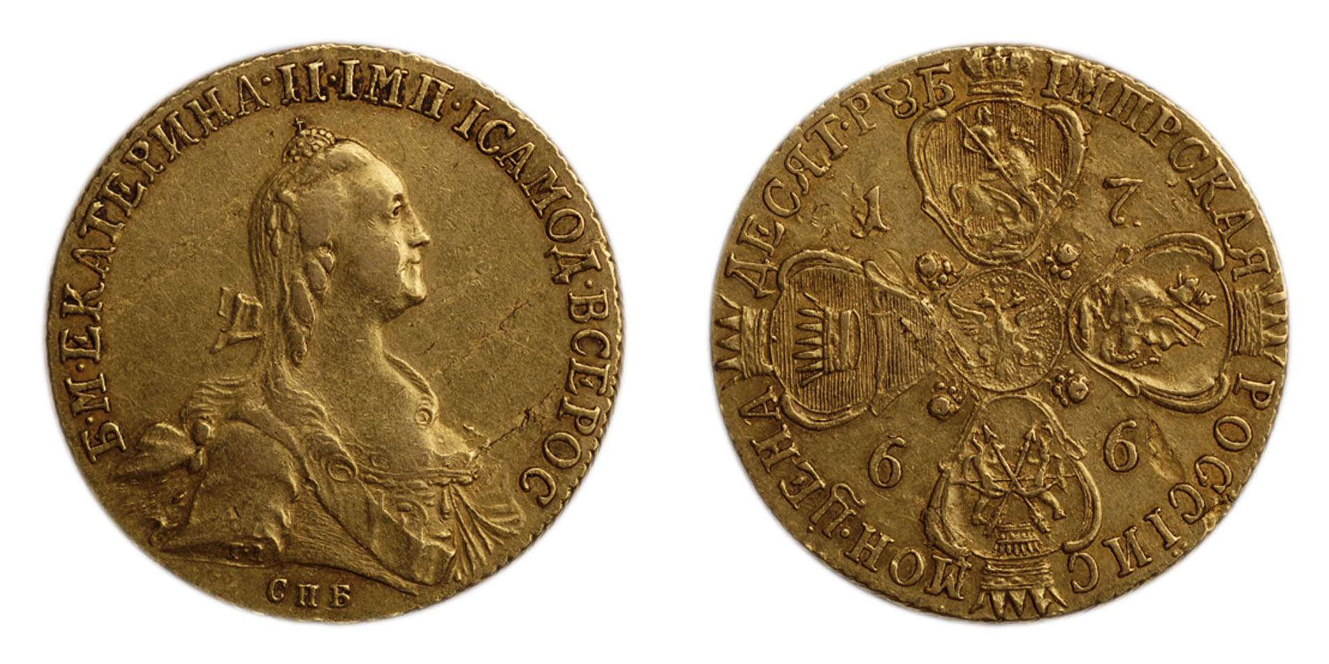 10 рублей 1766 г. (10 roubles of 1766).